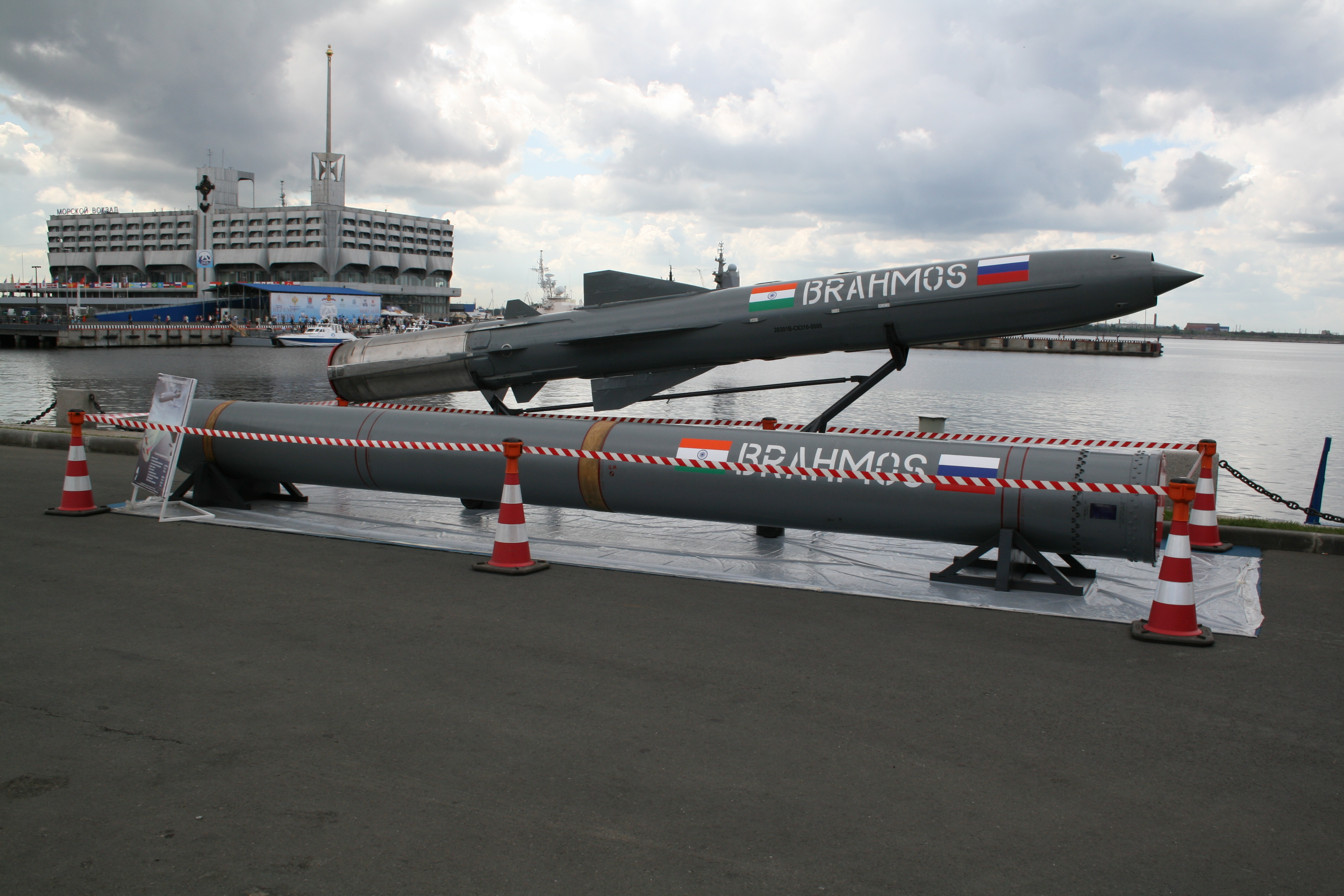 Cruise missile BrahMos on display at IMDS-2007